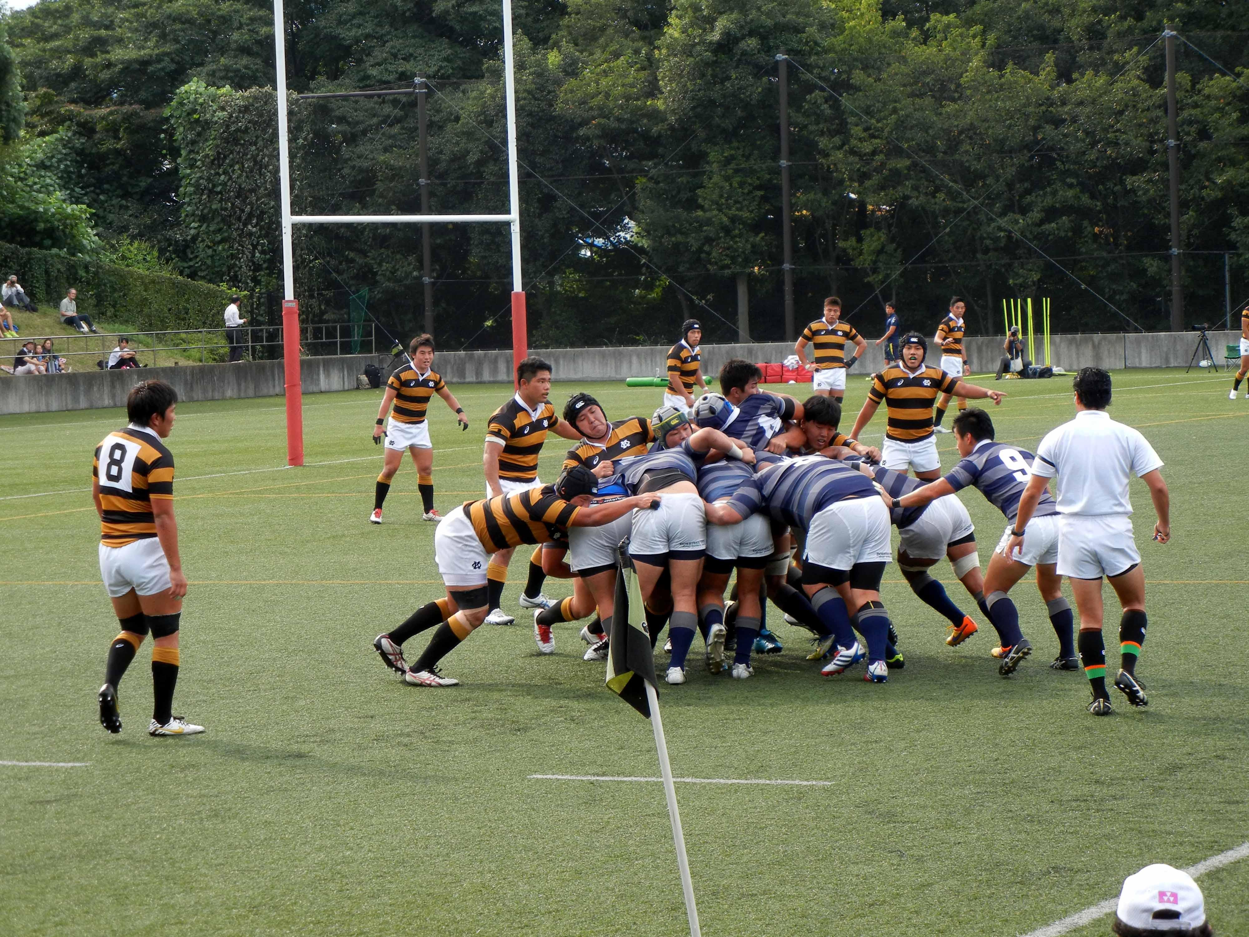 Rugby Keio University vs Doshisha University